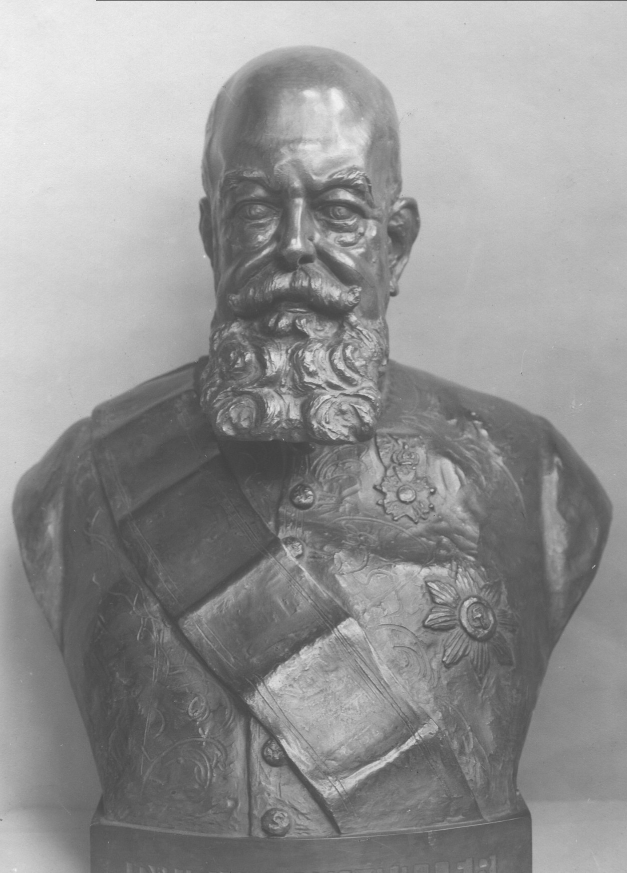 Bust of Dr. Hendrik P.N. Muller as placed in the University of the Free State and the Ethnographic Museum in Leiden